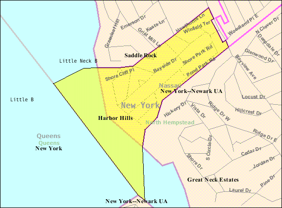 U.S. Census 2000 reference map for Harbor Hills, New York